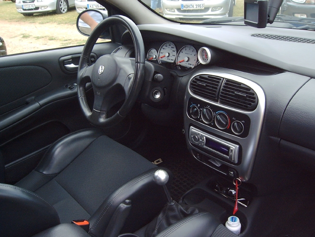 Interior of a Dodge SRT-4 Innenraum des Dodge SRT-4